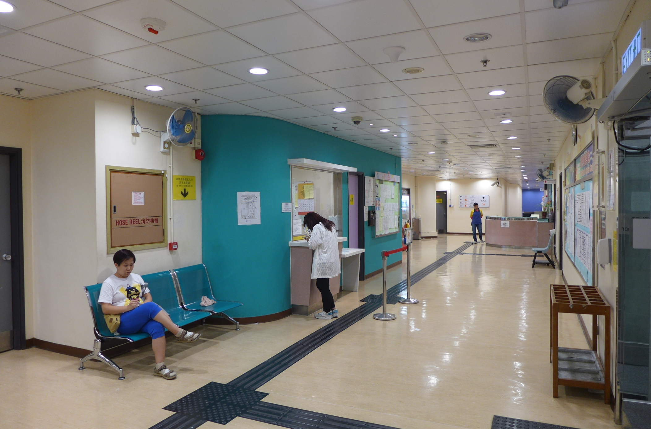 Sai Wan Ho Sports Centre Lobby